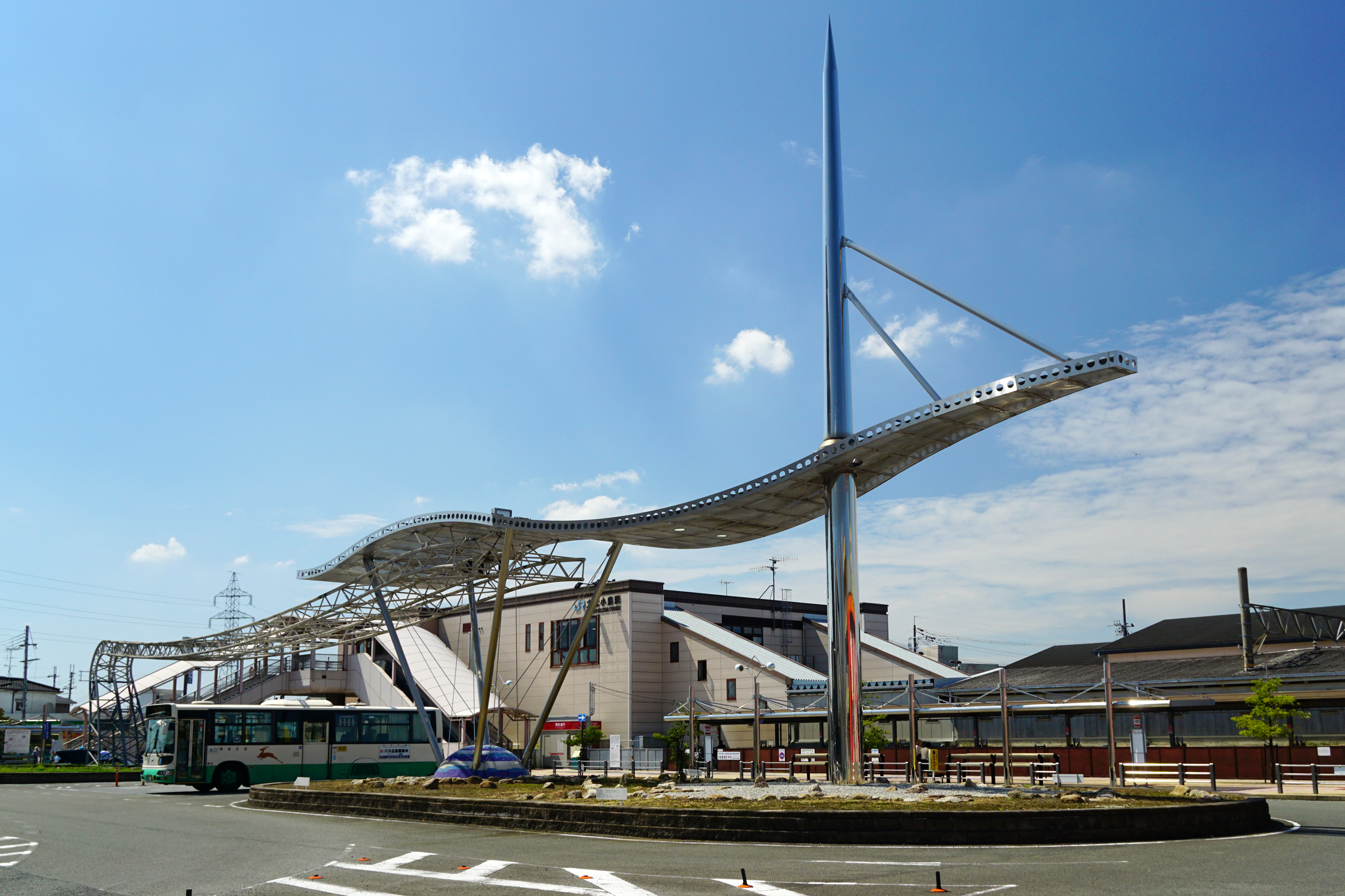 Yamato-Koizumi Station in Yamatokoriyama, Nara prefecture, Japan.